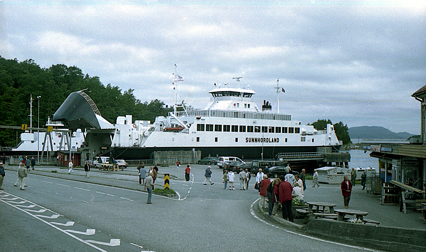 MF Sunnhordland and MF Sveio at Sandvikvåg.